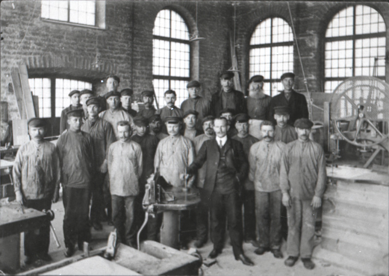 Volta plant model workshop workers and managers